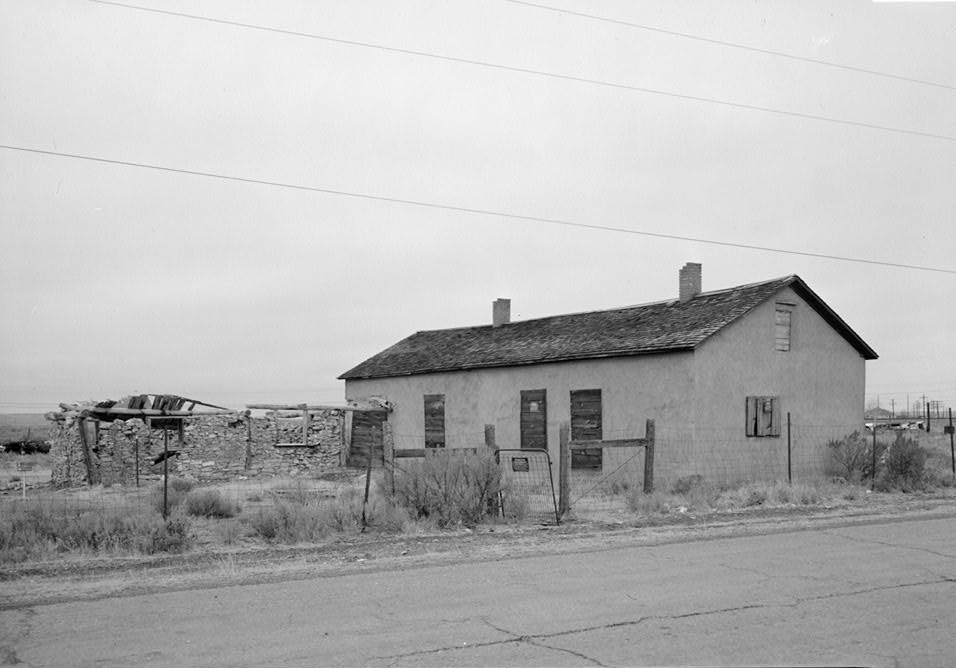 Front of the Granger Station, a former stagecoach station located along Old U.S. Route 30 in Granger, Wyoming, United States. Built in 1856, the station is listed on the National Register of Historic Places.